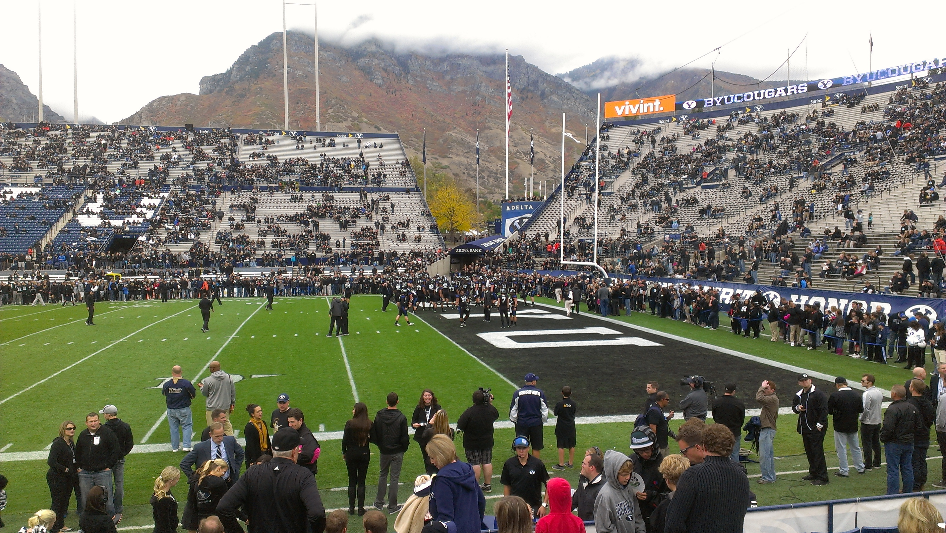 BYU debuts black uniforms against Oregon State on Saturday, Oct. 13, 2012.